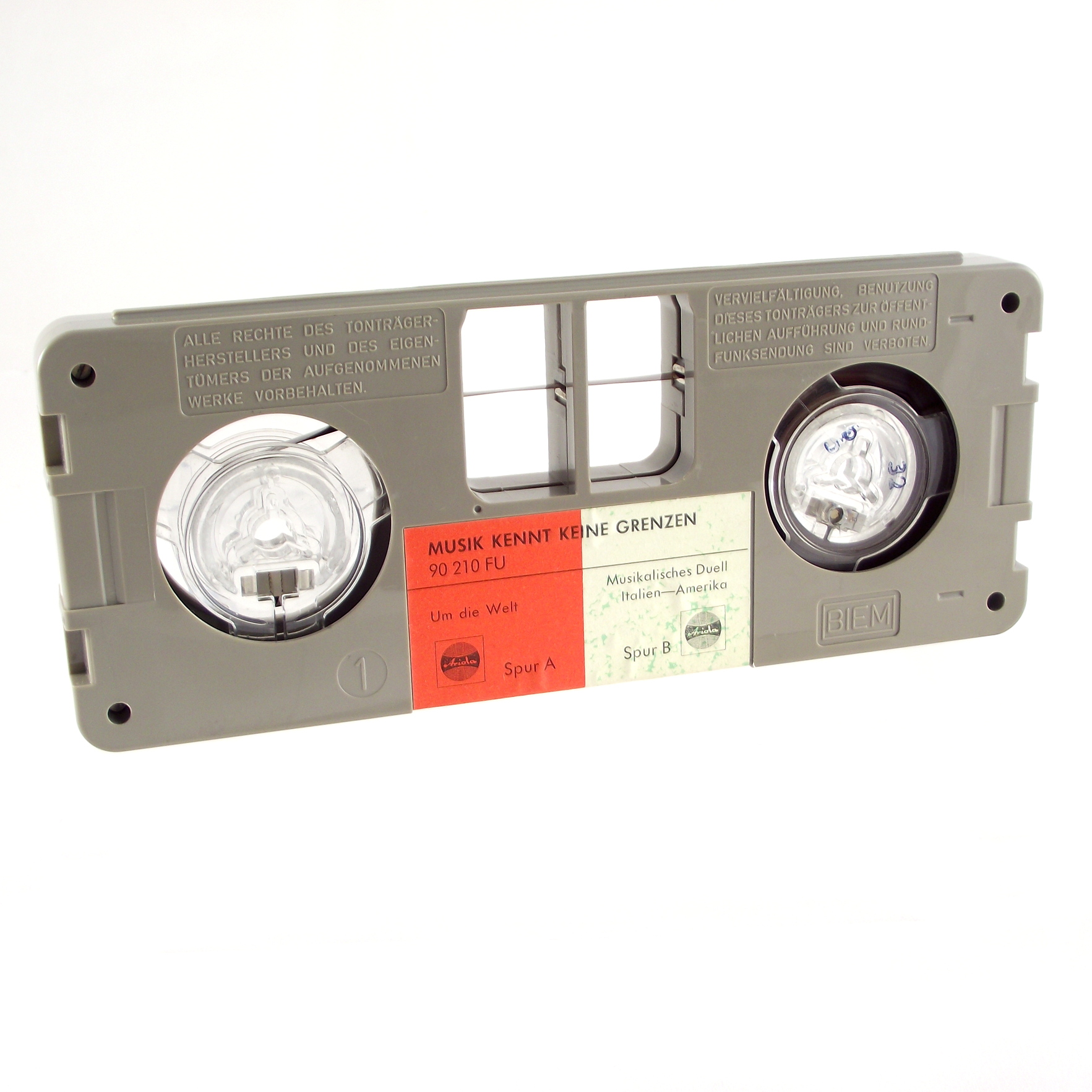 Sabamobil tape cartridge containing Musik Kennt Keine Grenzen